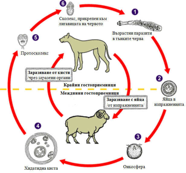 Echinococcus Life Cycle (in bulgarian)